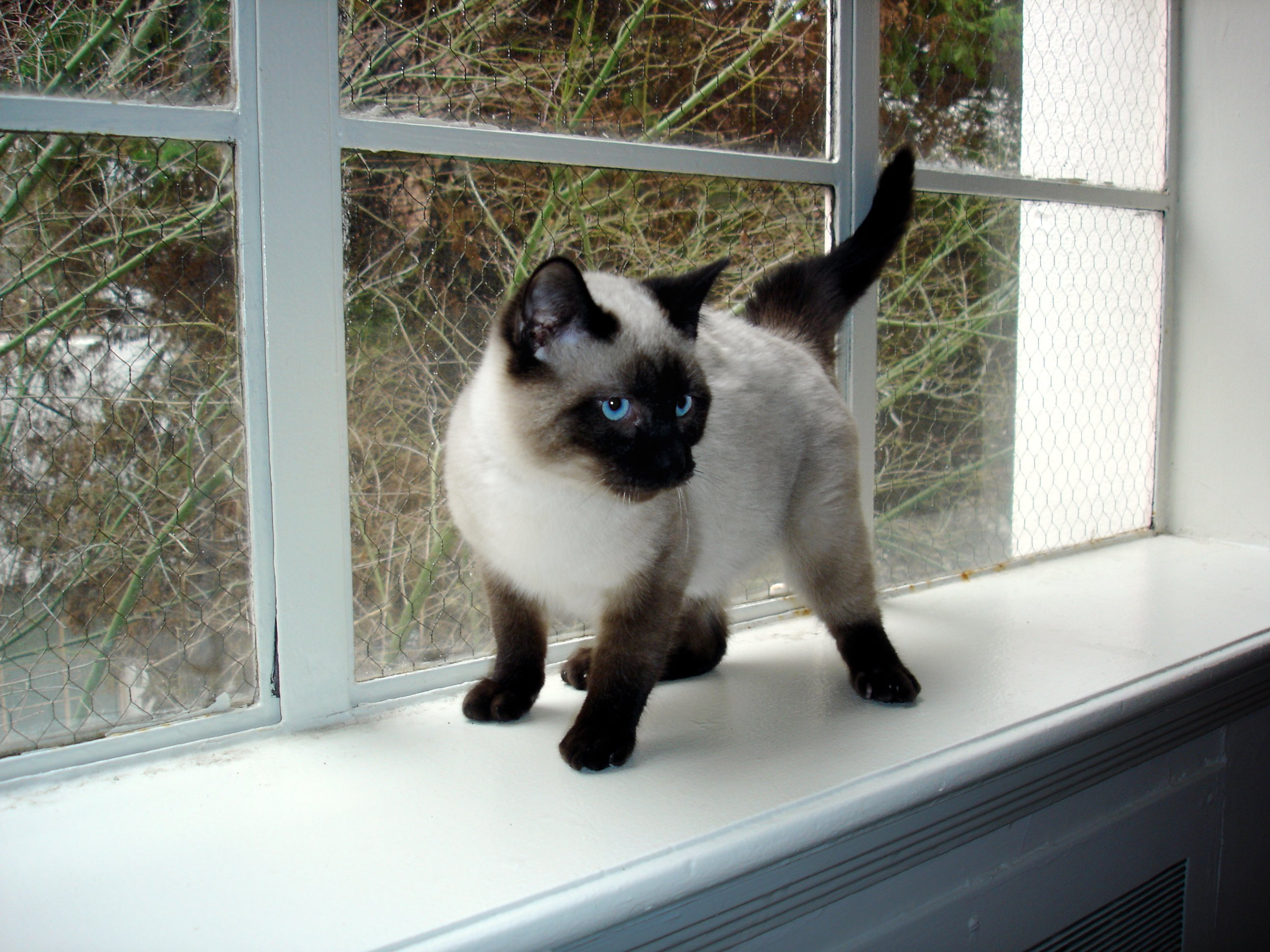 Seal Point Siamese kitten